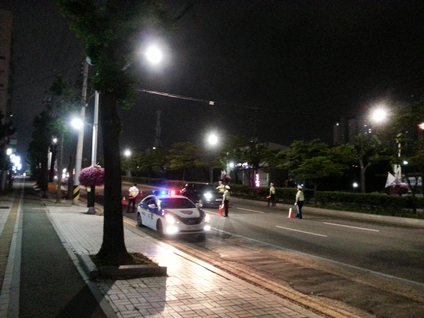 Sobriety checkpoint in South Korea